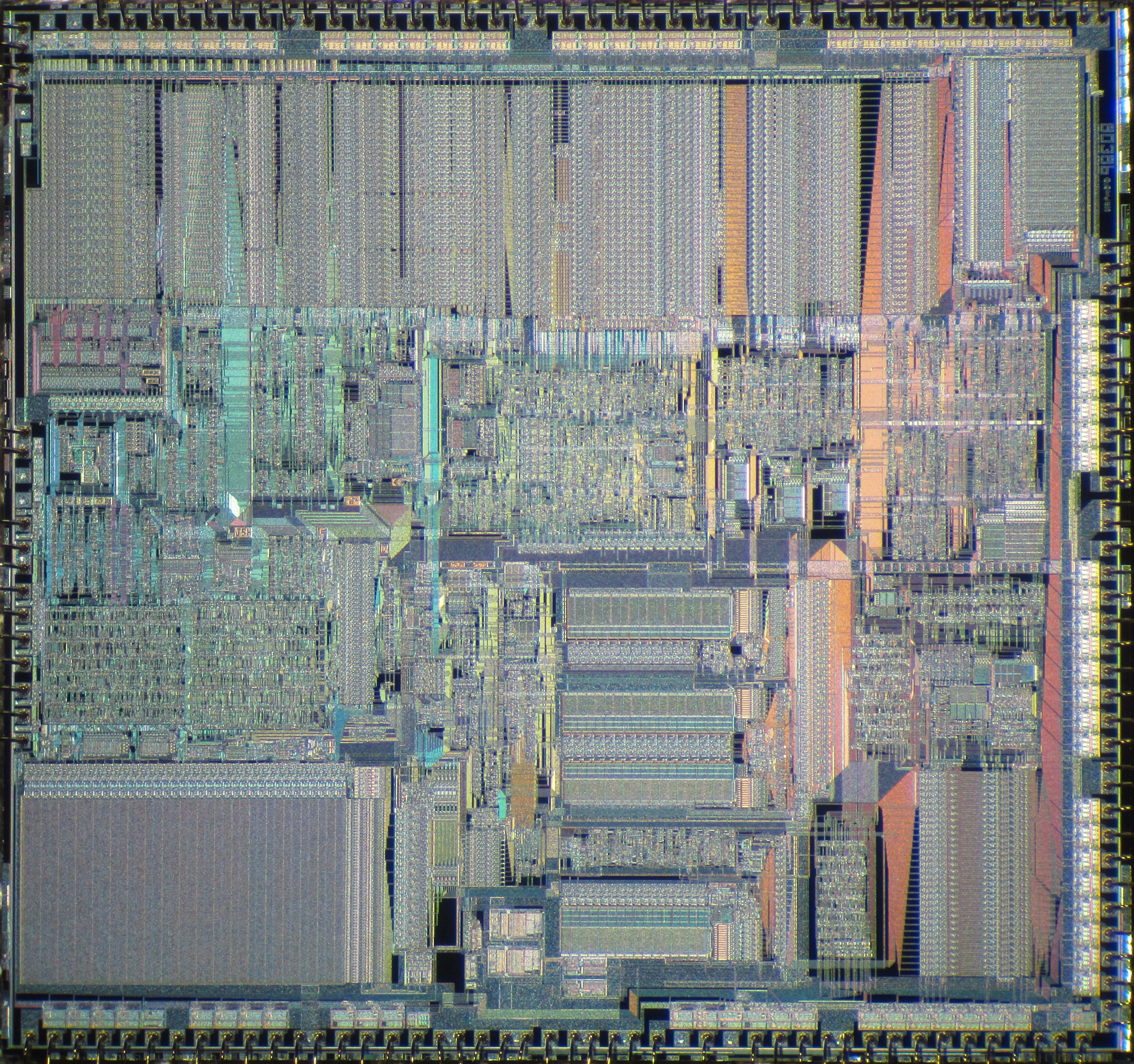 Die shot of Intel 80386 DX-25 microprocessor (SX215).